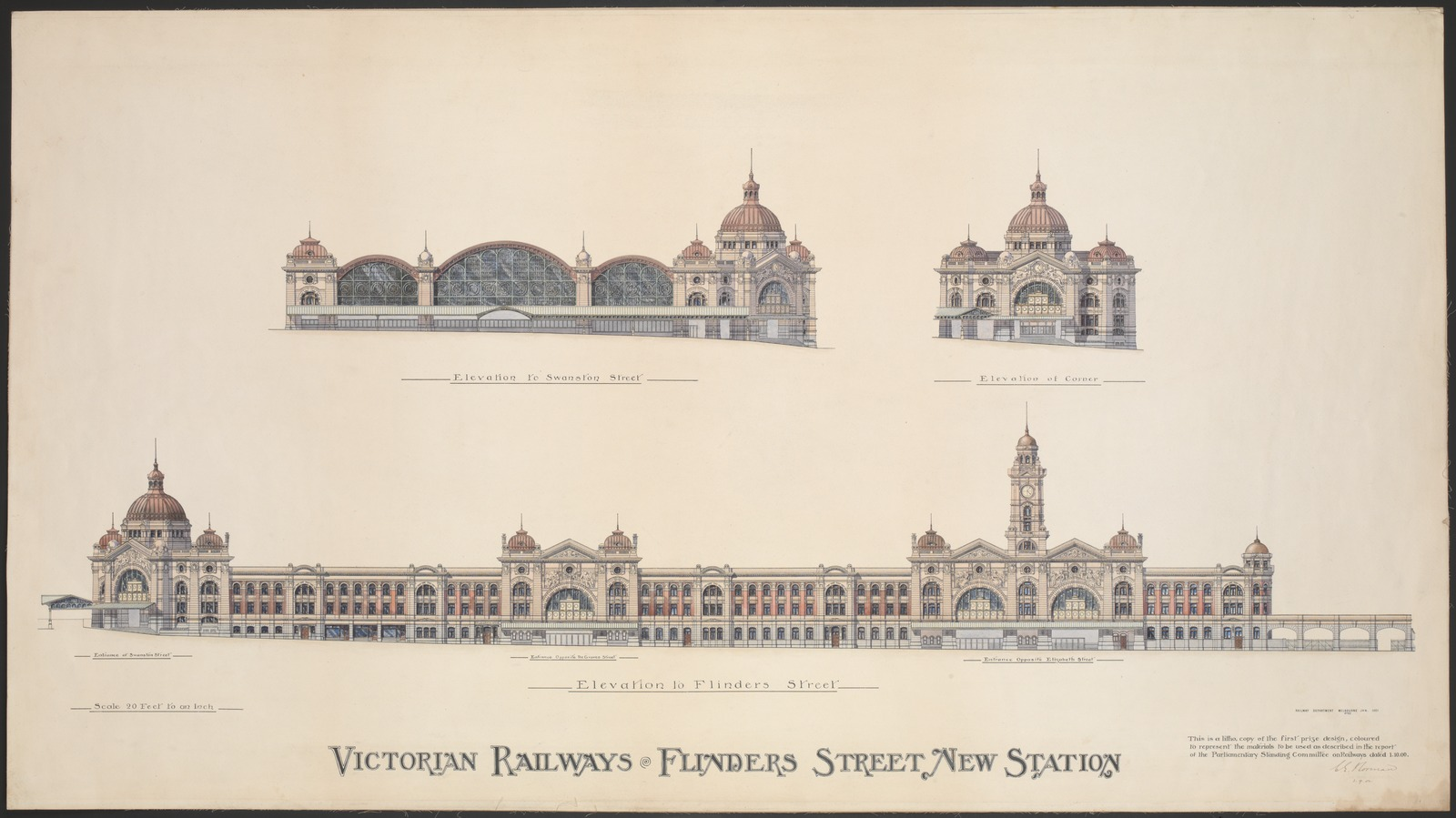 Flinders Street Station competition winning elevations; a litho. copy of the first prize design, coloured to represent the materials to be used as described in the report of the Parliamentary Standing Committee on Railways dated 1/10/1900. The drawings belonged to the contractor for Flinders Street Railway Station, Peter Rodger.